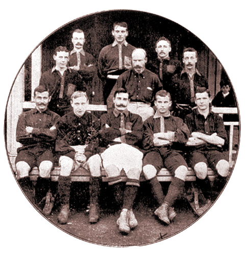 The 1904 Belgrano A.C. football squad of Argentina that won its second domestic title that year. Players are: Players are: George Dickinson, George Howard, Walter Buchanan, Robert Thompson, Harold Ratcliff, Charles Dickinson, Héctor Rugeroni, E. Frehling, Pablo Frers, Arthur Forrester, Henry Knight.